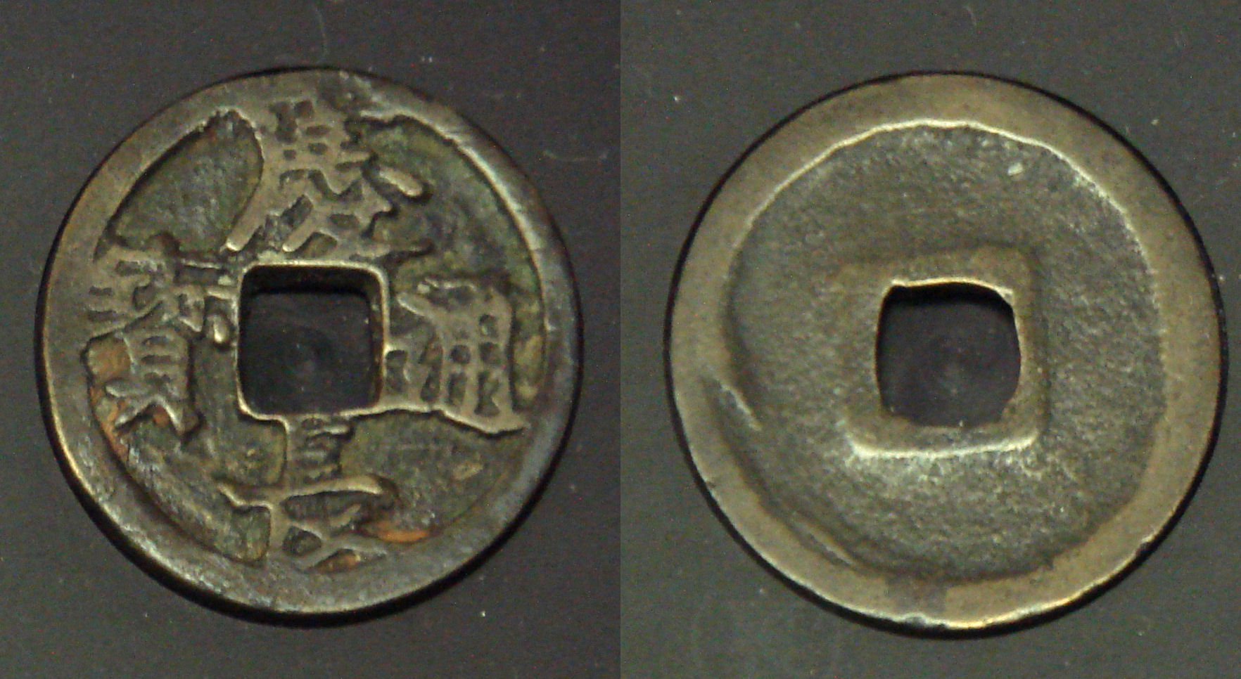 Keichou_Tsuuhou_coin, circa 1606.